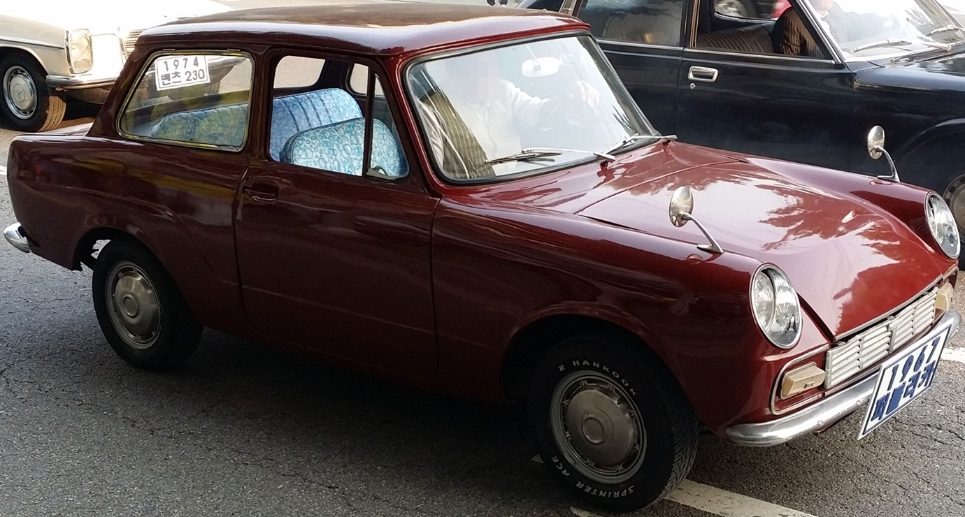 Shinjin Publica